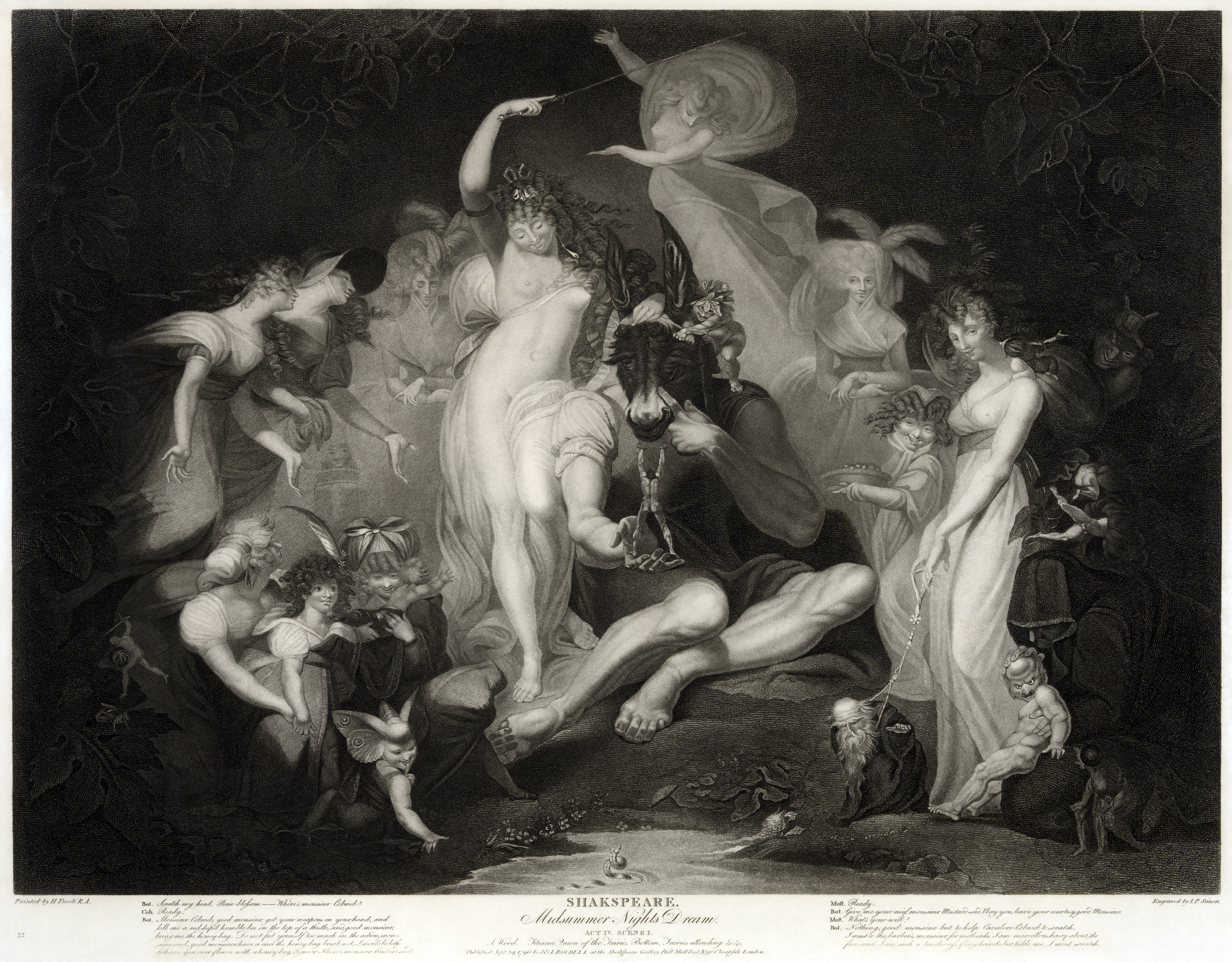 "Midsummer Nights Dream Act IV Scene I--A wood - Titiania [i.e., Titania], queen of the fairies, Bottom, fairies attending & etc." engraving